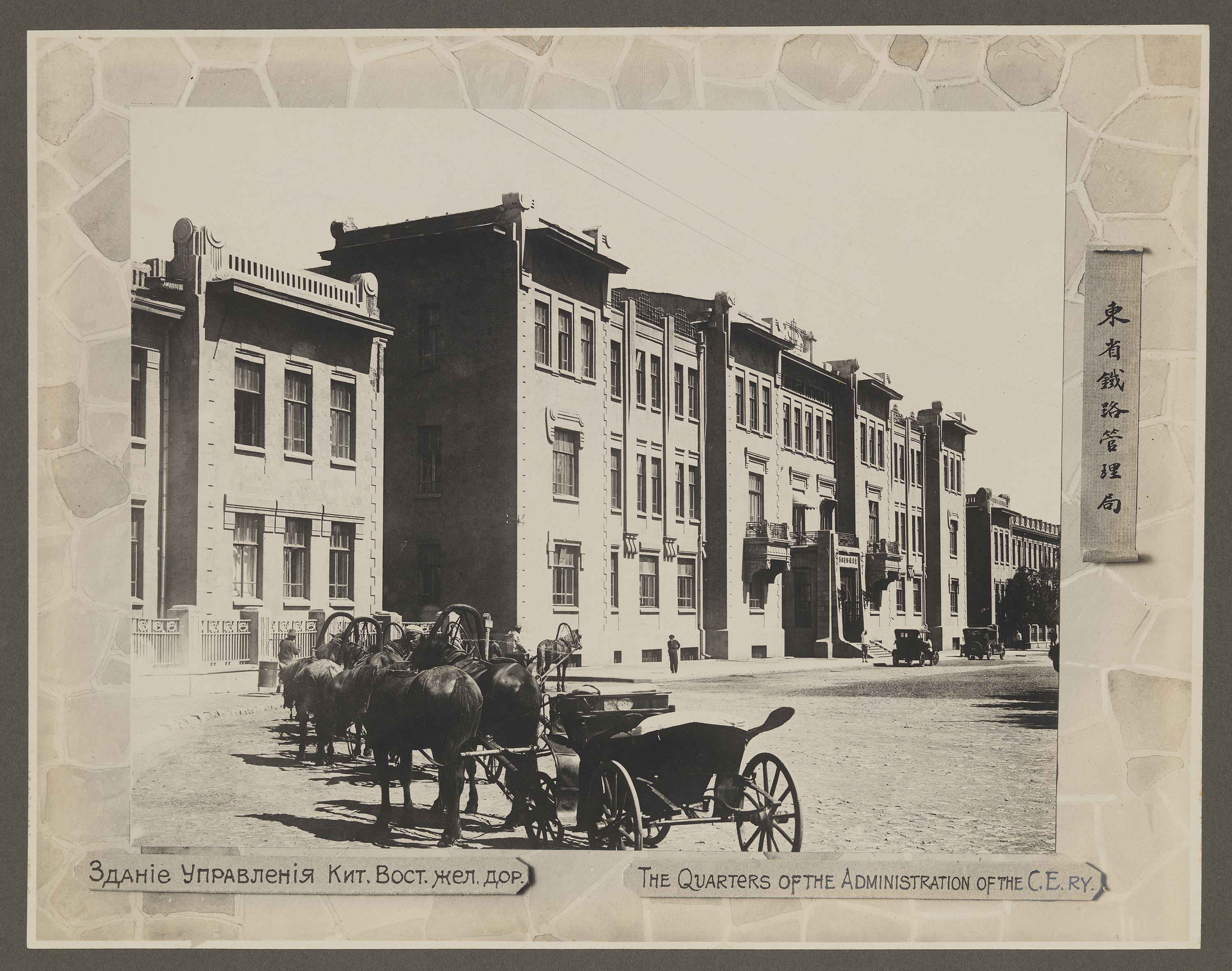 Title: The Quarters of the Administration of the C. E. Ry. Creator: Unknown Date: ca. 1903-1919 Place: Harbin, Heilongjiang, People's Republic of China Part Of: Description: This photograph is part of an album, Views of the Chinese Eastern Railway, which contains 42 photographic prints. The Chinese Eastern Railway, also known as the Trans-Manchurian line of the Trans-Siberian Railway, linked Chita to Vladivostok. Physical Description: 1 photographic print: gelatin silver, part of 1 volume (42 gelatin silver prints); 21 x 27 cm on 27 x 38 cm File: ag1987_0662x_02_opt.jpg Rights: Please cite DeGolyer Library, Southern Methodist University when using this file. A high-resolution version of this file may be obtained for a fee. For details see the web page. For other information, . For more information, View the full album: View the